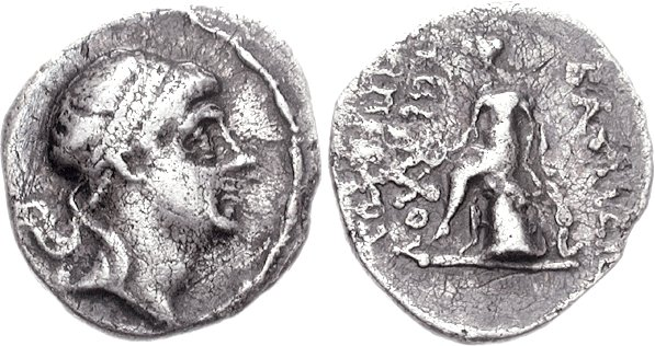 Coin of the Seleucian usurpator Timarchus (163-160 BC) Diademed head right, Apollo seated left on omphalos, nude but for slight drapery on right thigh, holding arrow in right hand, left hand resting on bow.